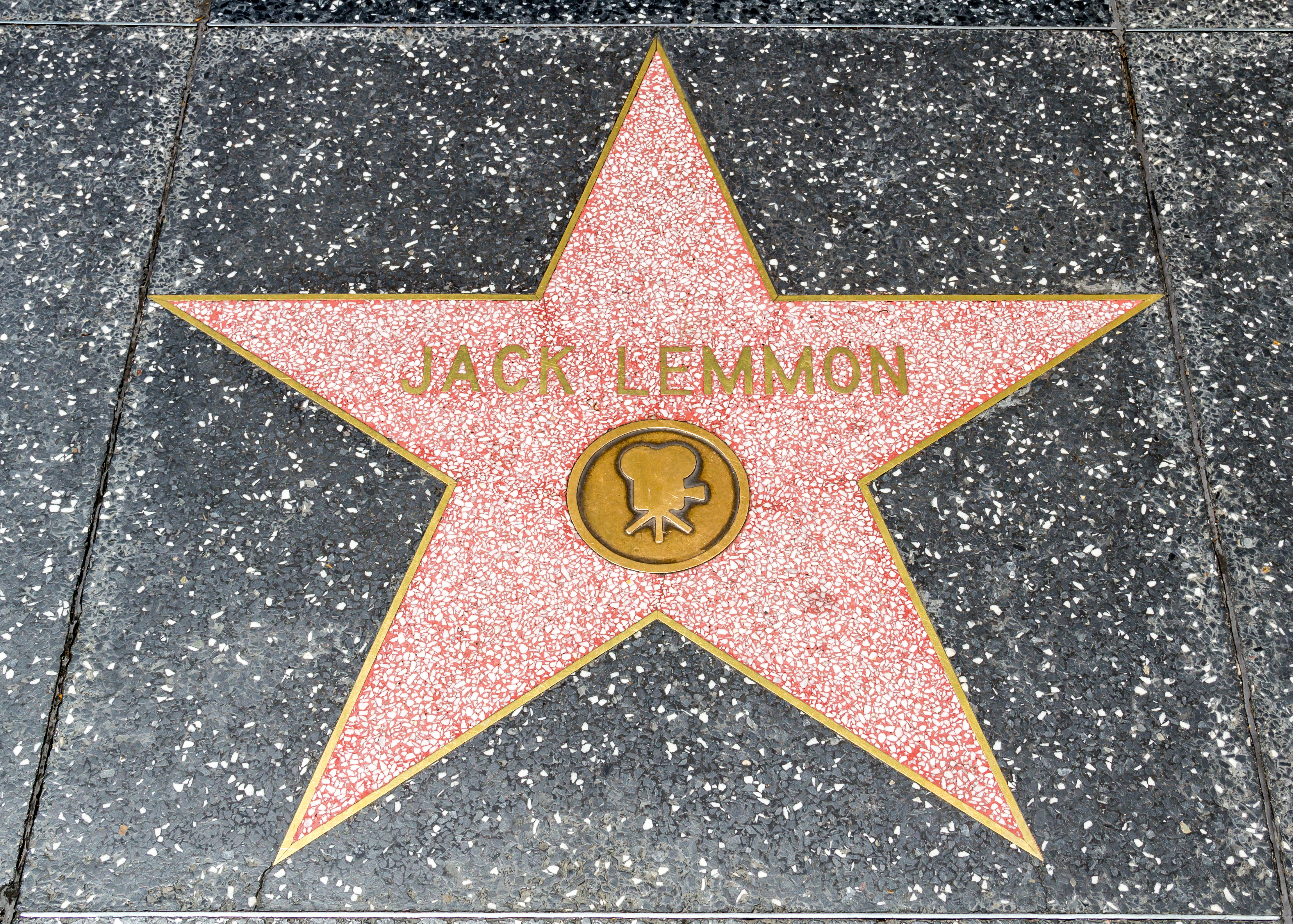 Star “Jack Lemmon” at the Hollywood Boulevard in Los Angeles, California, USA